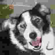 This image is a PNG for the demonstration of the compression artifacts of JPEG 2000. I (Shlomi Tal) took the photo of the dog and used it for the demonstration pictures on the Lossy Data Compression page on the Hebrew Wikipedia.